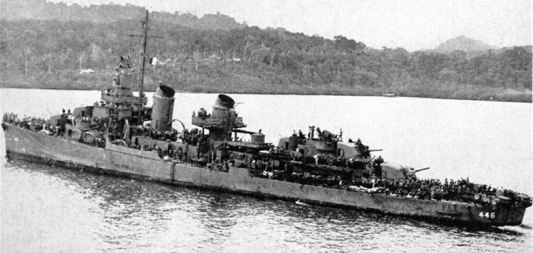 The U.S. Navy destroyer USS Radford (DD-446) steaming into Tulagi Harbour in the Solomons with a deckload of survivors of the sunken light cruiser USS Helena (CL-50), and with the wounded filling all available space below, 6 July 1943. Helena was sunk during the Battle of Kula Gulf the night before. Radford received Presidential Unit Citation for the rescue of 468 survivors.